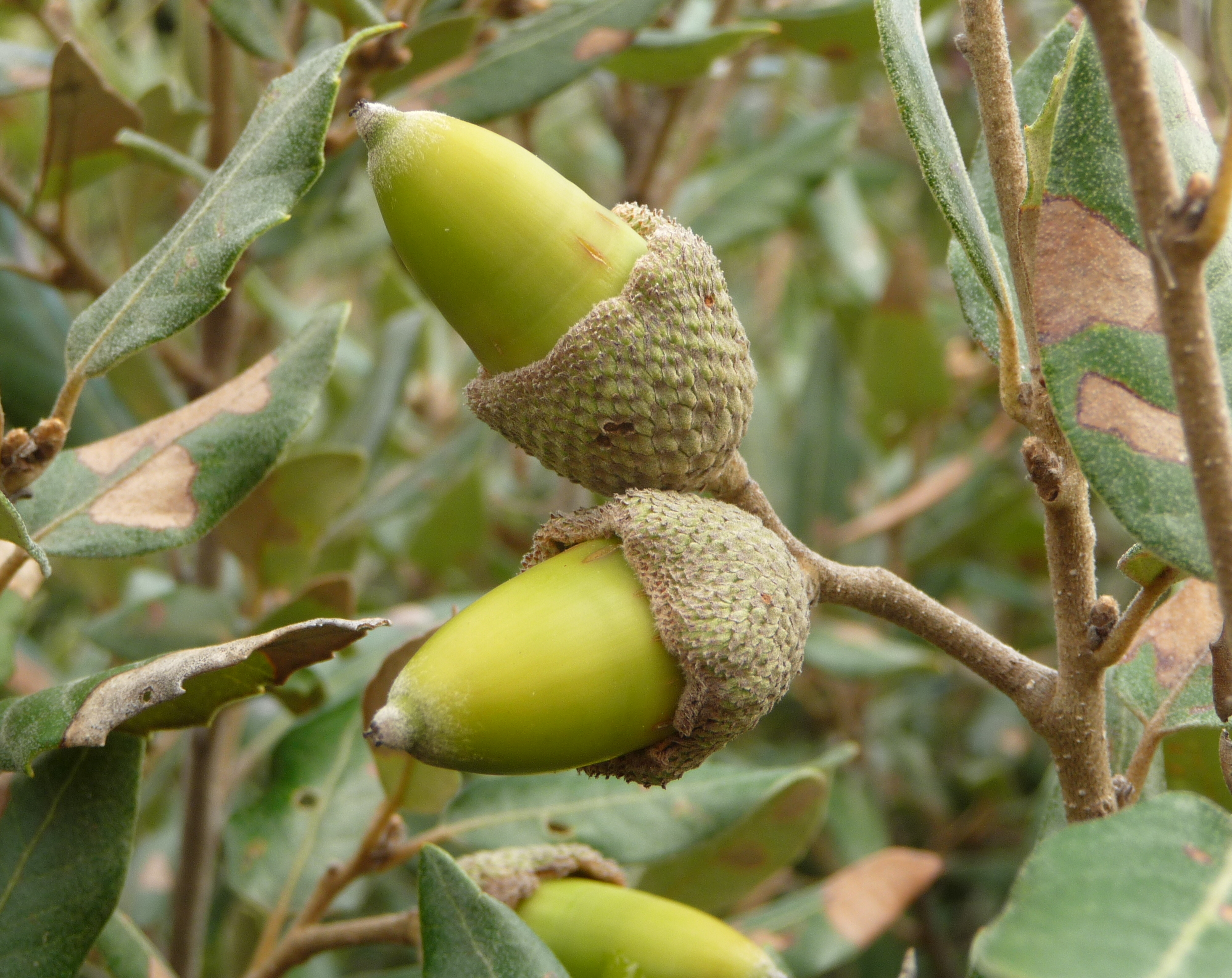 Fruits of Quercus ilex, near Livorno, Italy